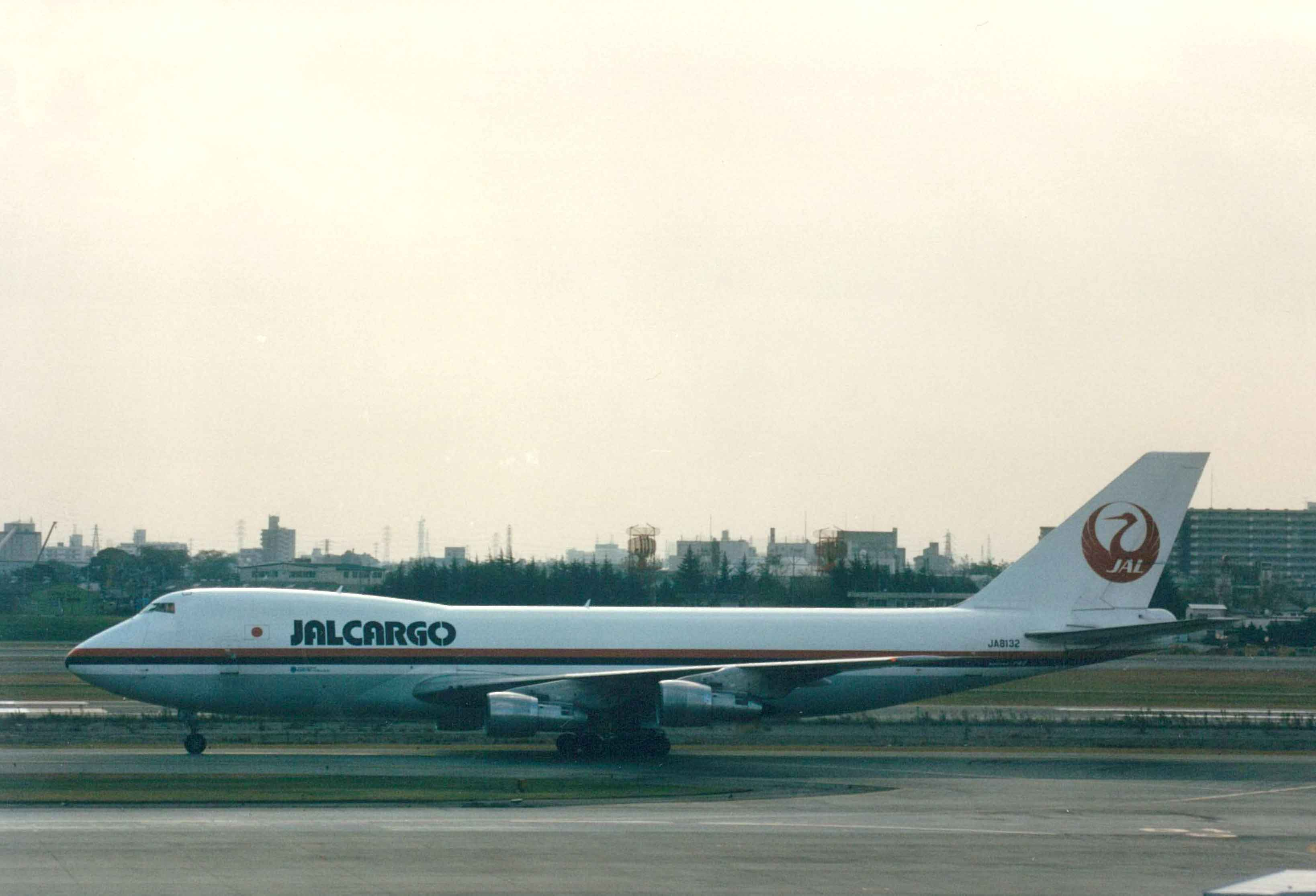 It is JAL CARGO which it photographed in Itami, Osaka Airport.